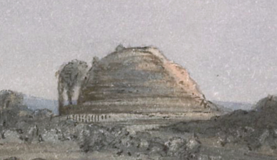 Sanchi Great Stupa 1851